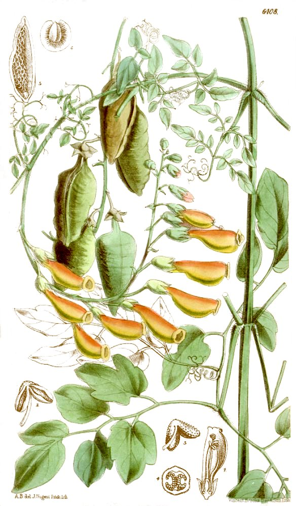 Illustration of Eccremocarpus scaber